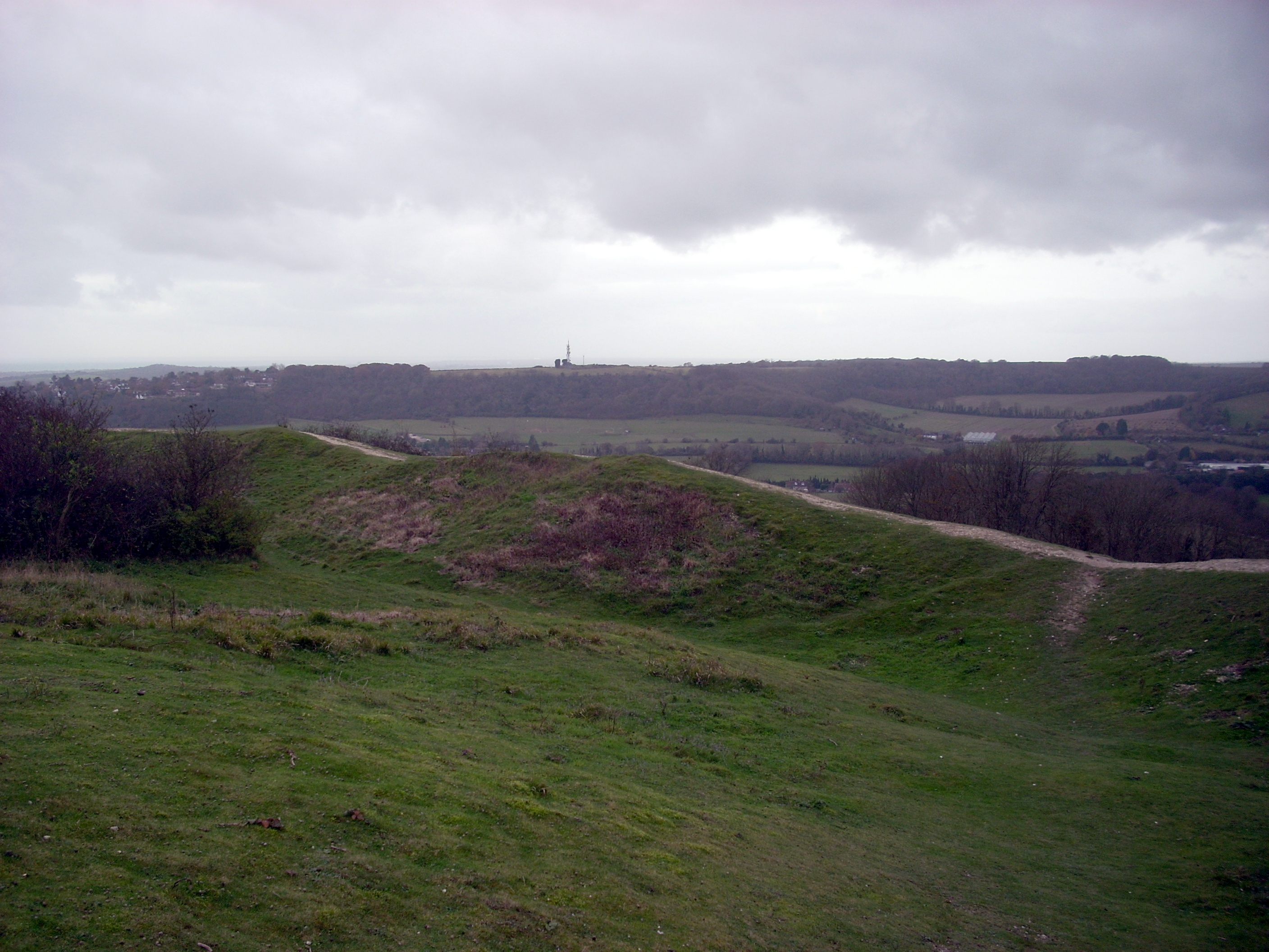 Rampart of Cissbury Ring, an Iron Age hillfort in West Sussex.